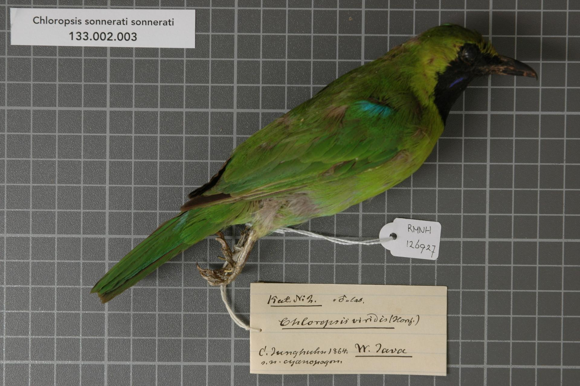 Chloropsis sonnerati sonnerati Jardine & Selby, 1827